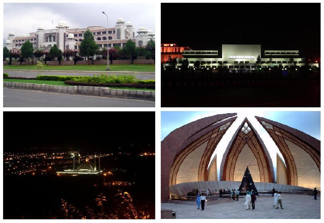 Collage of images of places and buildings in Islamabad. Image sources: Top left: Prime Minister, originally from here, under Creative Commons Attribution 2.0 License. Top right: Parliament of Pakistan, originally from here, in Public Domain. Bottom left: Night view of Islamabad from Margalla Hills, originally from here, under Creative Commons Attribution 2.0 License. Bottom right: Pakistan Monument, originally from English Wikipedia, under Creative Commons Attribution 3.0 License.